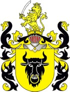 Herb Wieniawa Wieniawa Clan File:POL COA Wieniawa.svg is a vector version of this file. It should be used in place of this raster image when not inferior. File:HerbWieniawa1.JPG File:POL COA Wieniawa.svg For more information, see Help:SVG. In other languages